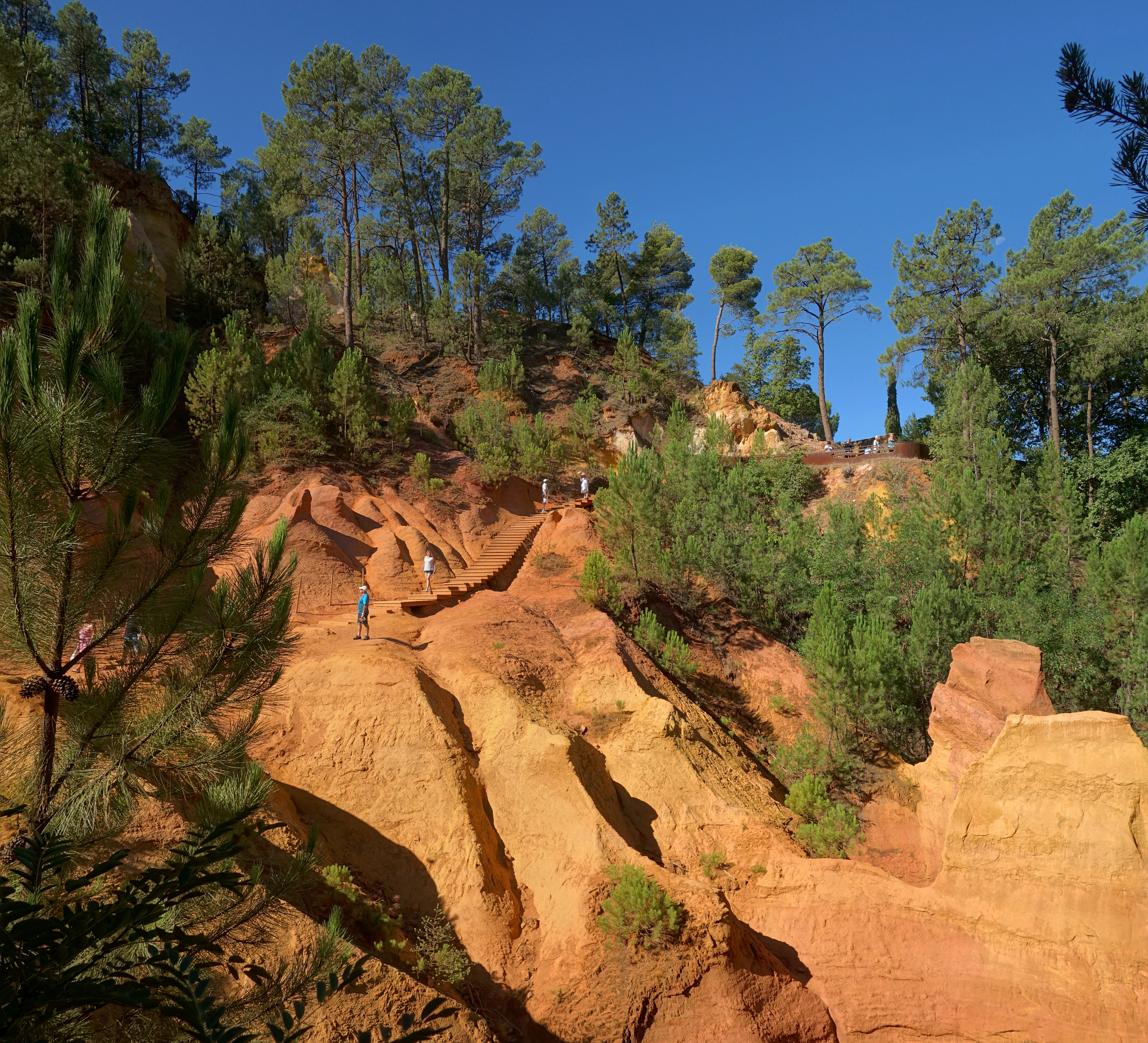 Footpath of ocres, Roussillon